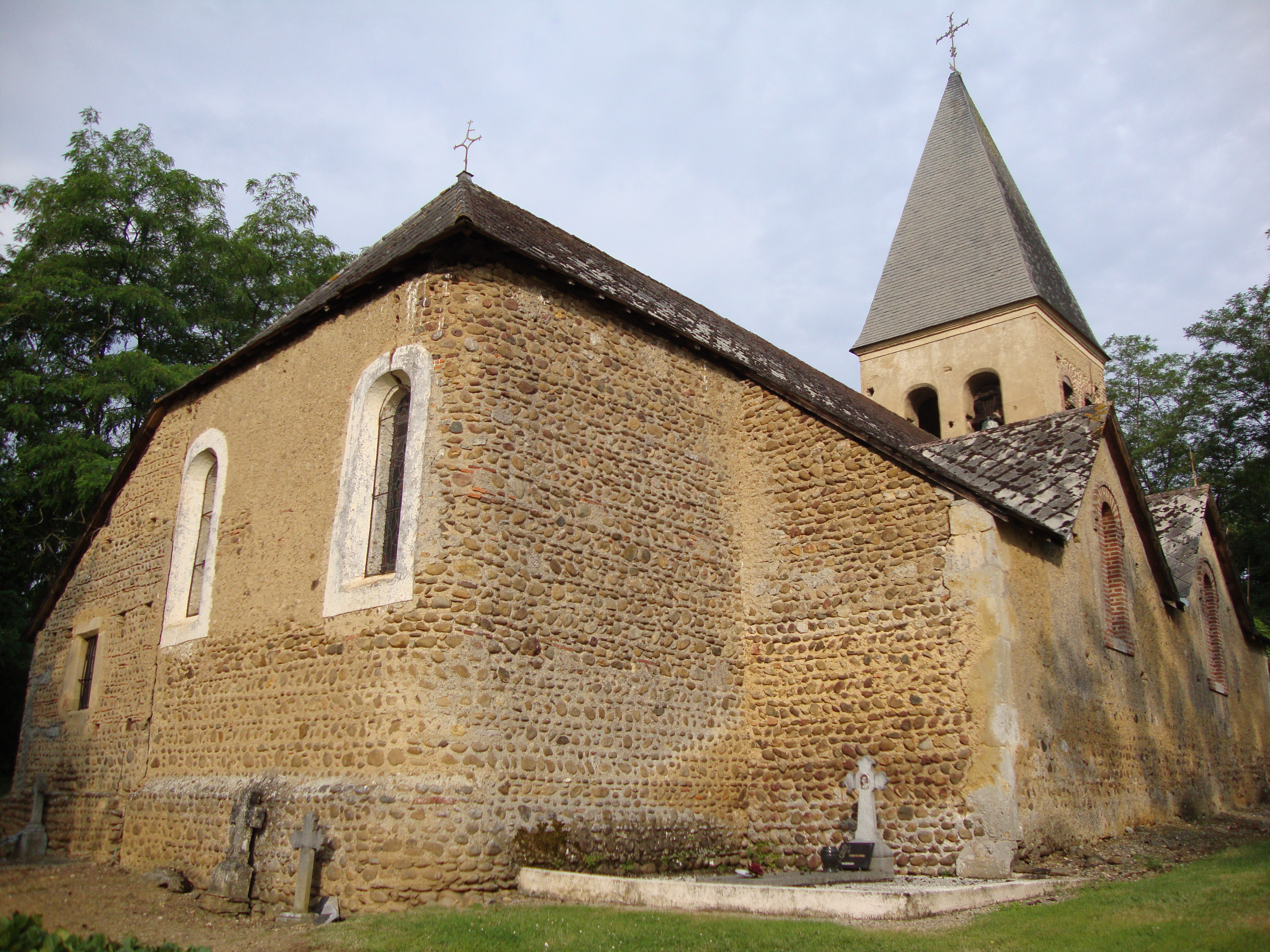 Bentayou (Bentayou-Sérée, Pyr-Atl, Fr) church with apse